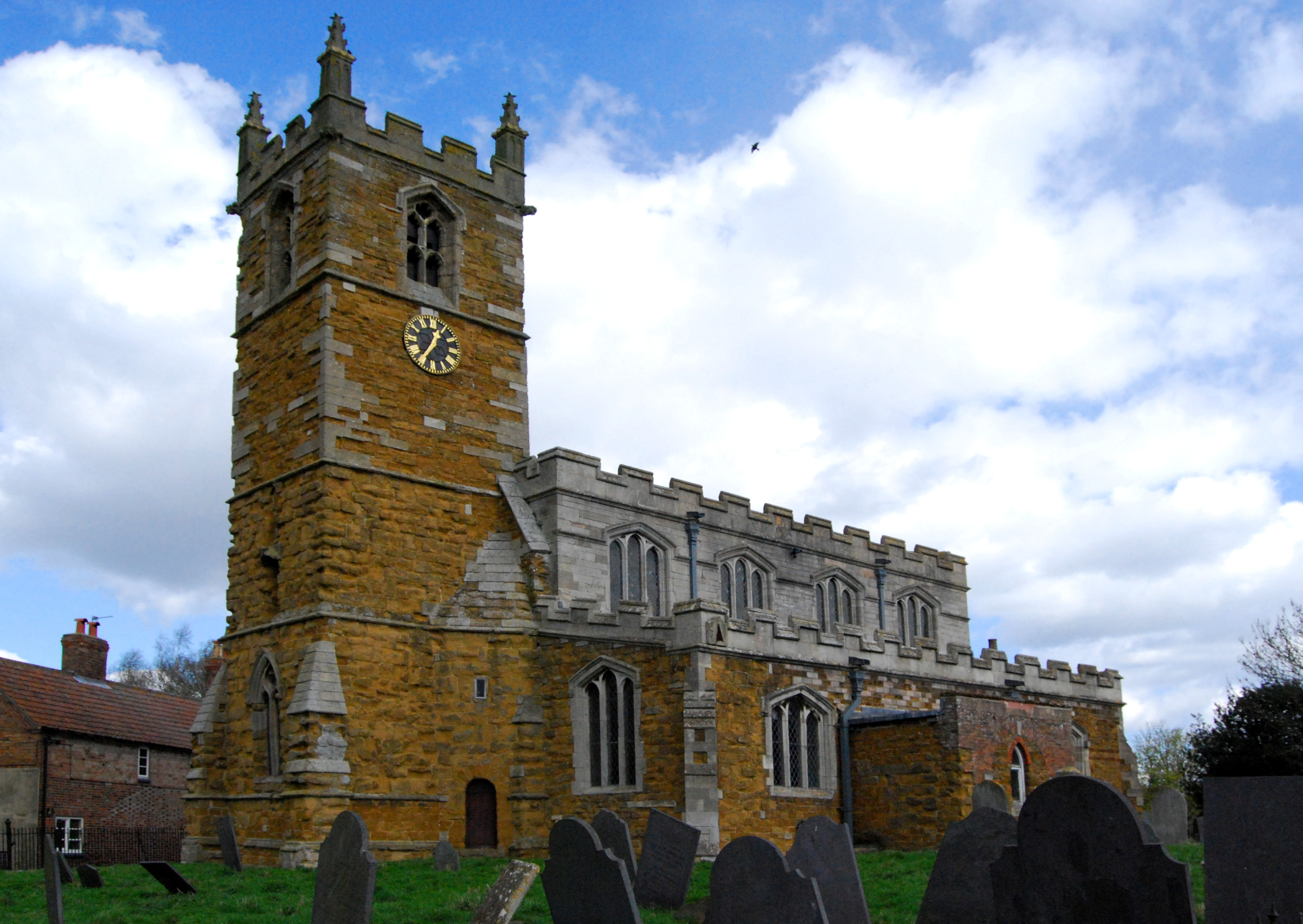 Parish church of St Michael and All Saints, Hose, Leicestershire, seen from the south